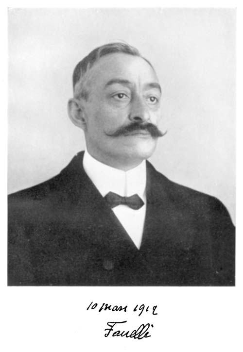 Photo of the French composer Ernest Fanelli